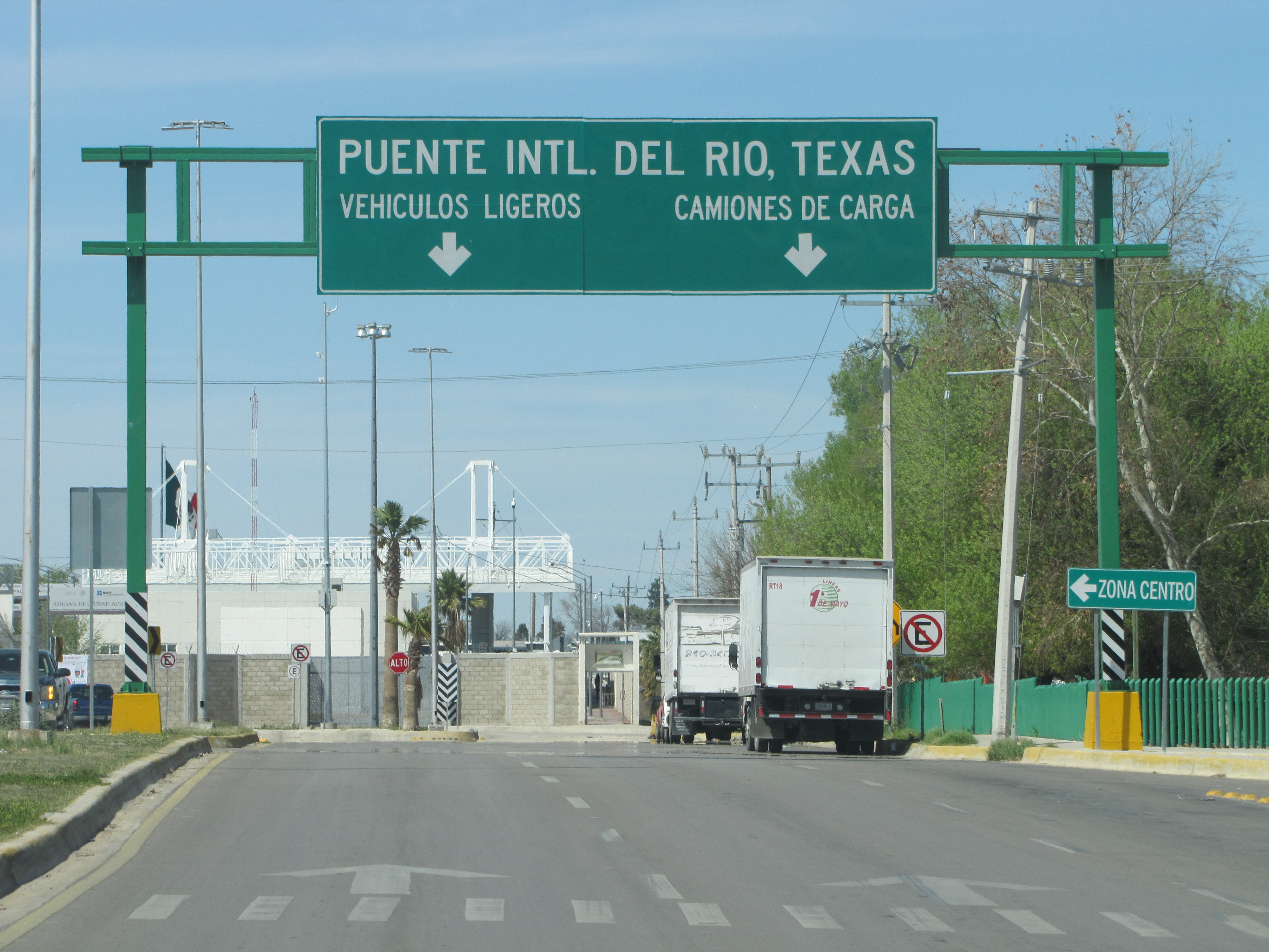 International border crossing between Ciudad Acuña (Coahuila, Mexico) and Del Río (Texas, USA)